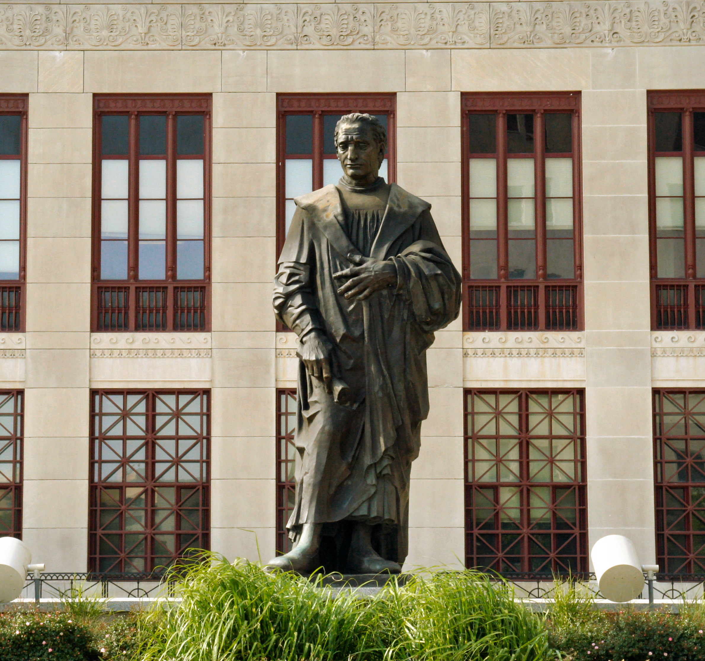 Statue of Christopher Columbus in Columbus, Ohio next to City Hall.